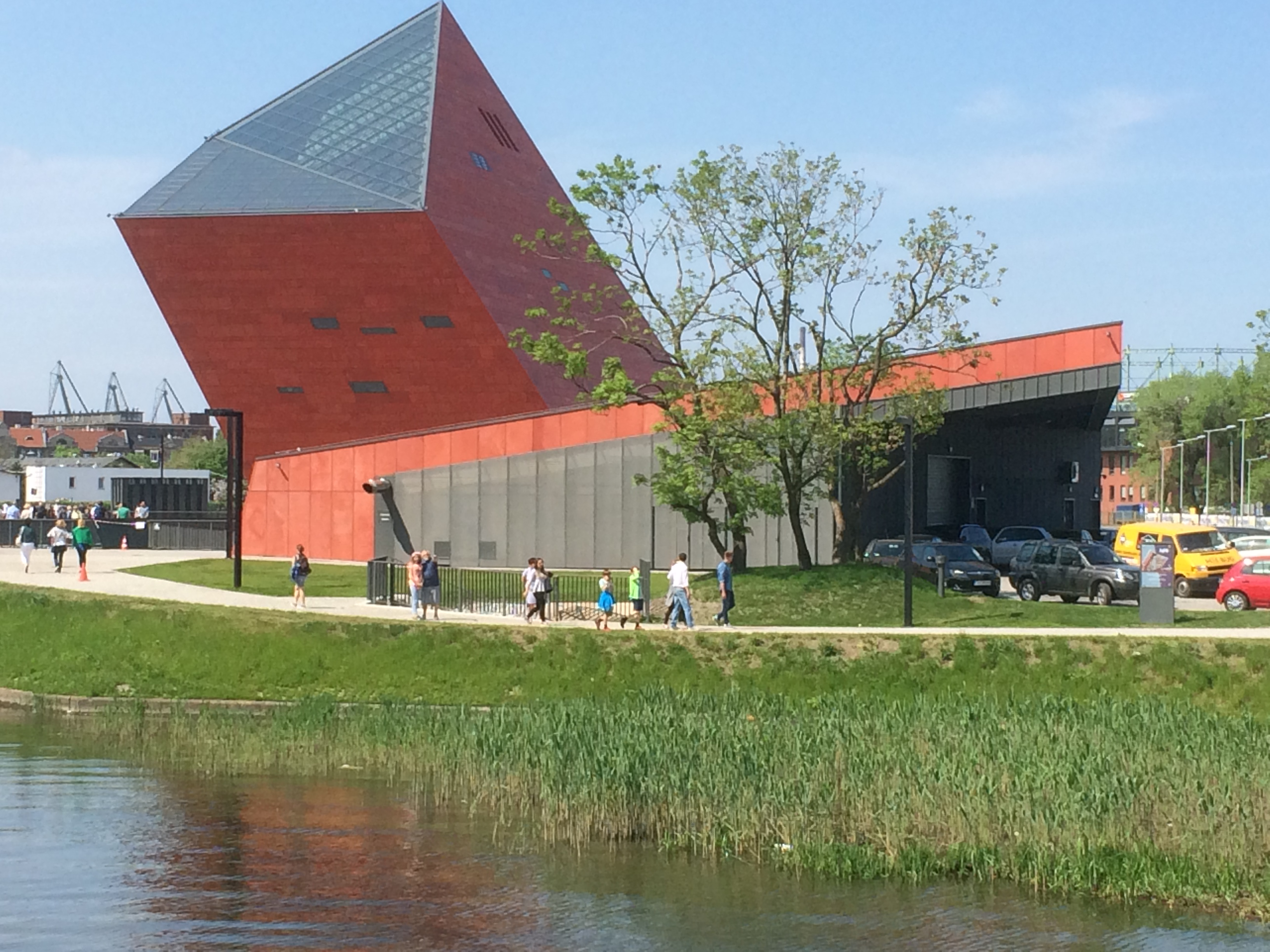 The Museum of World War II in Gdansk (Muzeum II Wojny Światowej)